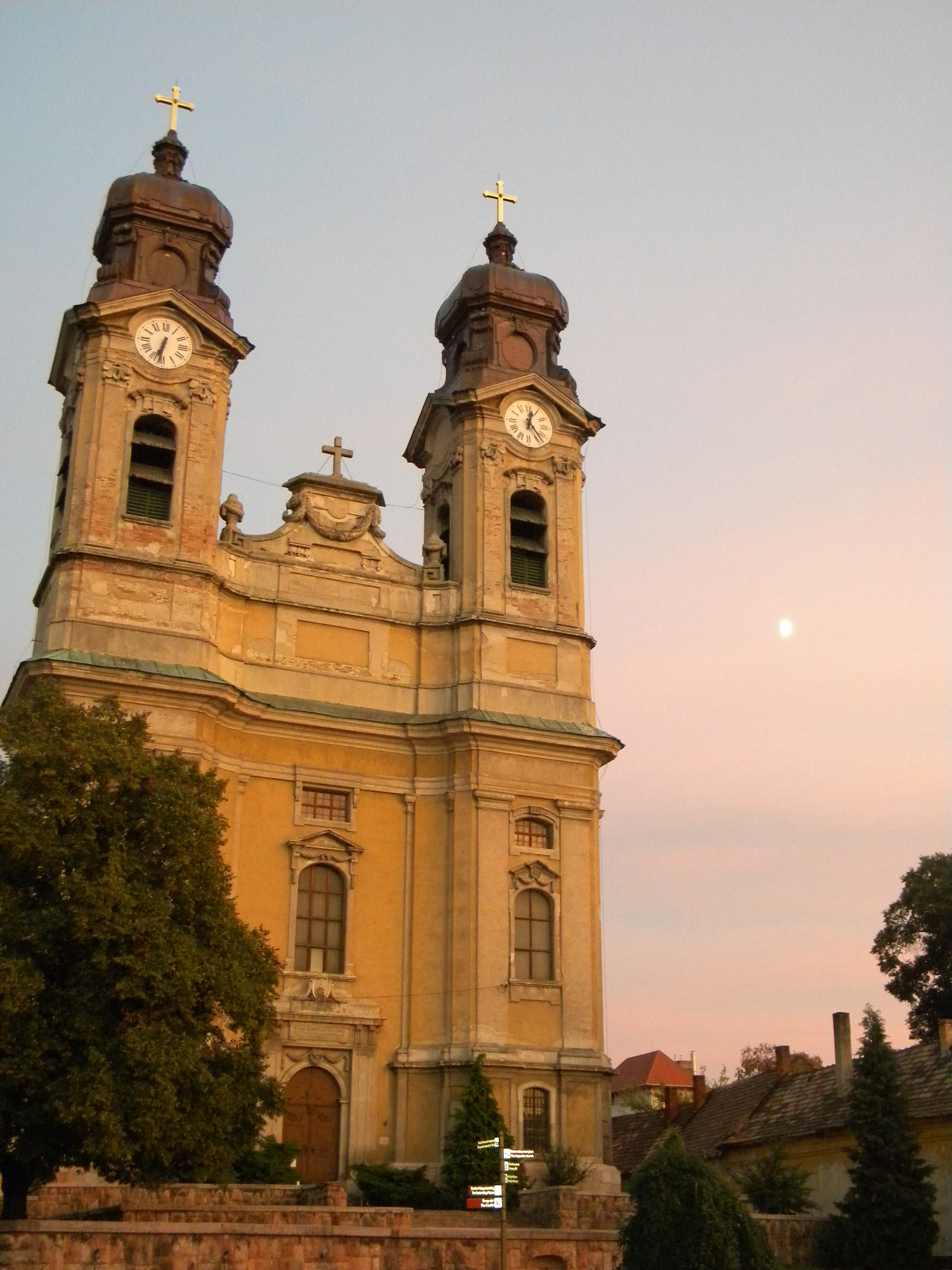 Location: Hungary, Tata